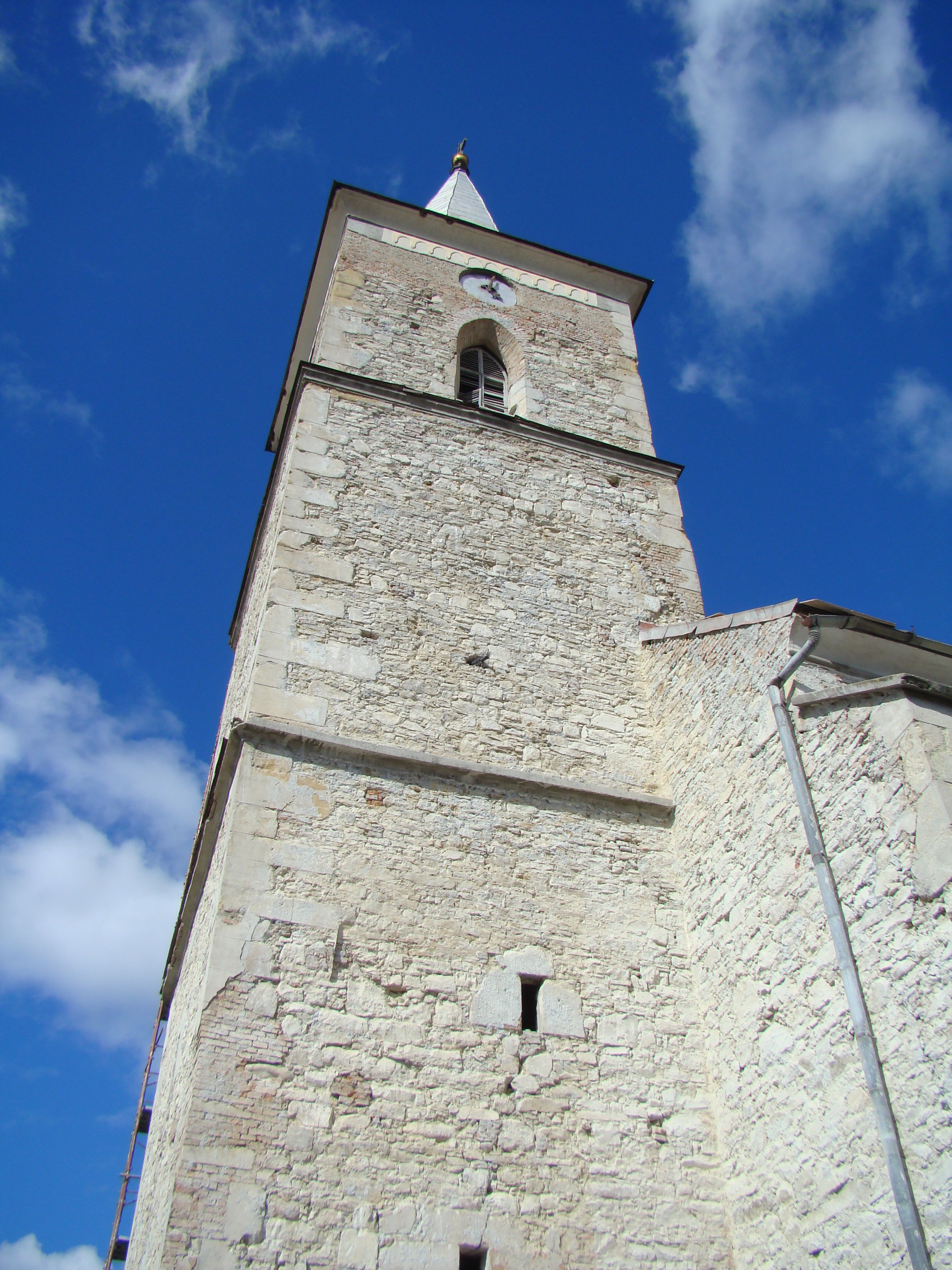 Saint Demetrius church in Dipșa (former lutheran church), Bistrița-Năsăud county, Romania